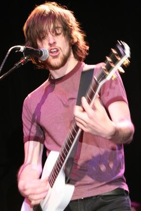 Mike Kennerty in Seattle, Washington, USA on July 1, 2006